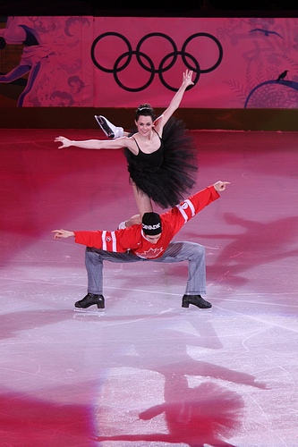 2010 Winter Olympics figure skating gala - Tessa Virtue and Scott Moir